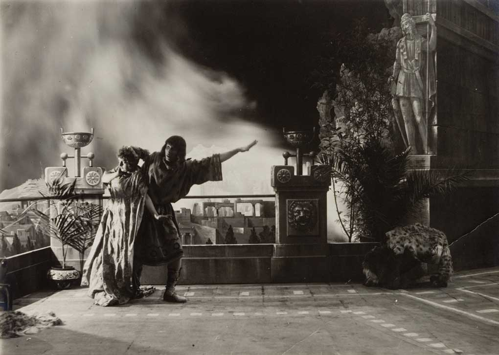 Helena and Paris in the movie La caduta di Troia (1911)